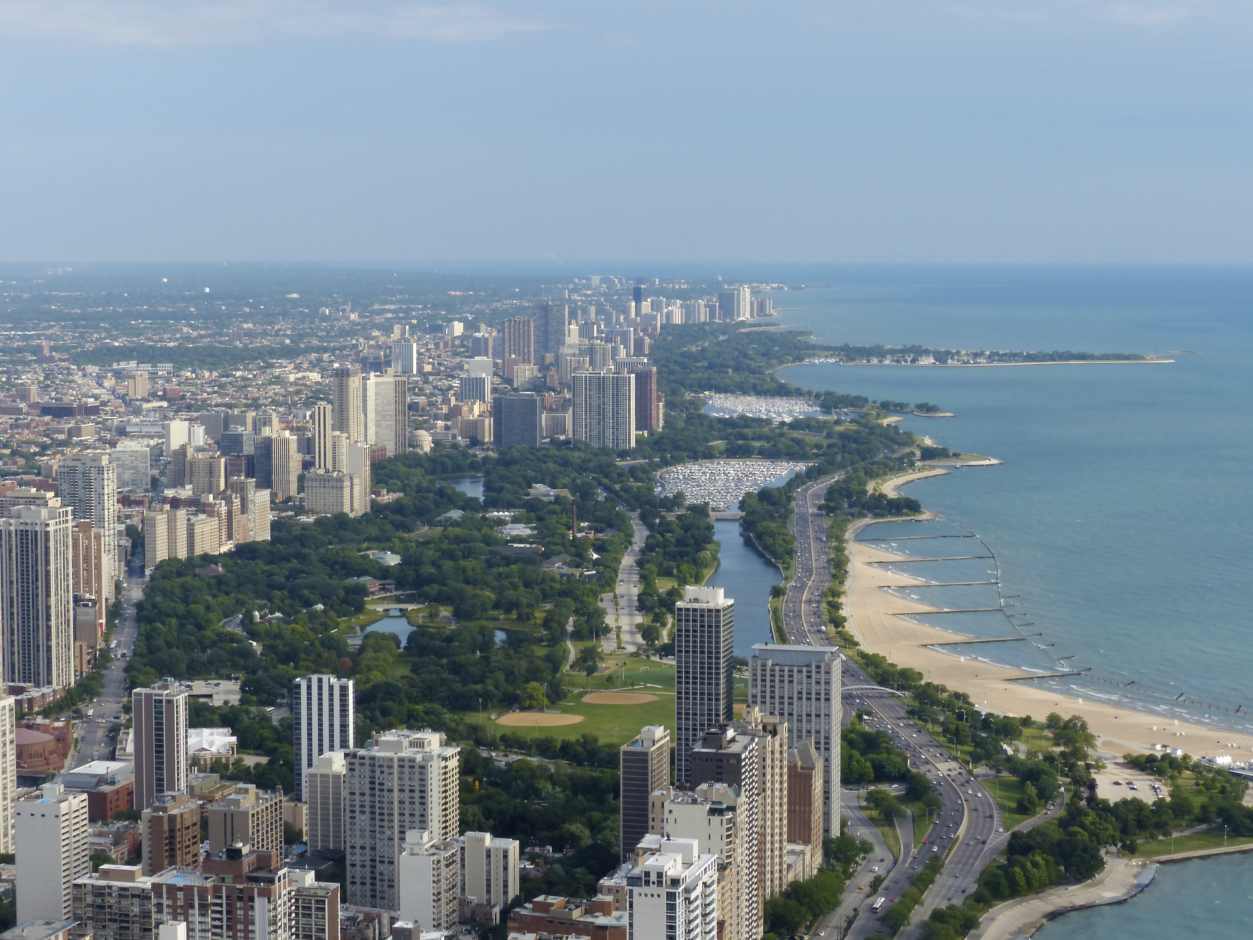 Chicago